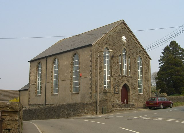 Capel-yTabernacl In Efail Isaf village